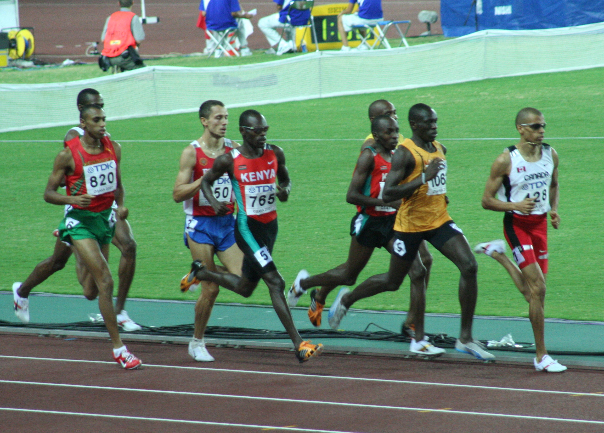 World Athletics Championships 2007 in Osaka - Scene from the men's 800 metres final: Amine Laalou, Yuriy Borzakovskiy, Wilfred Bungei, Alfred Kirwa Yego, Abraham Chepkirwok, Gary Reed